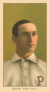 Mickey Doolan baseball card